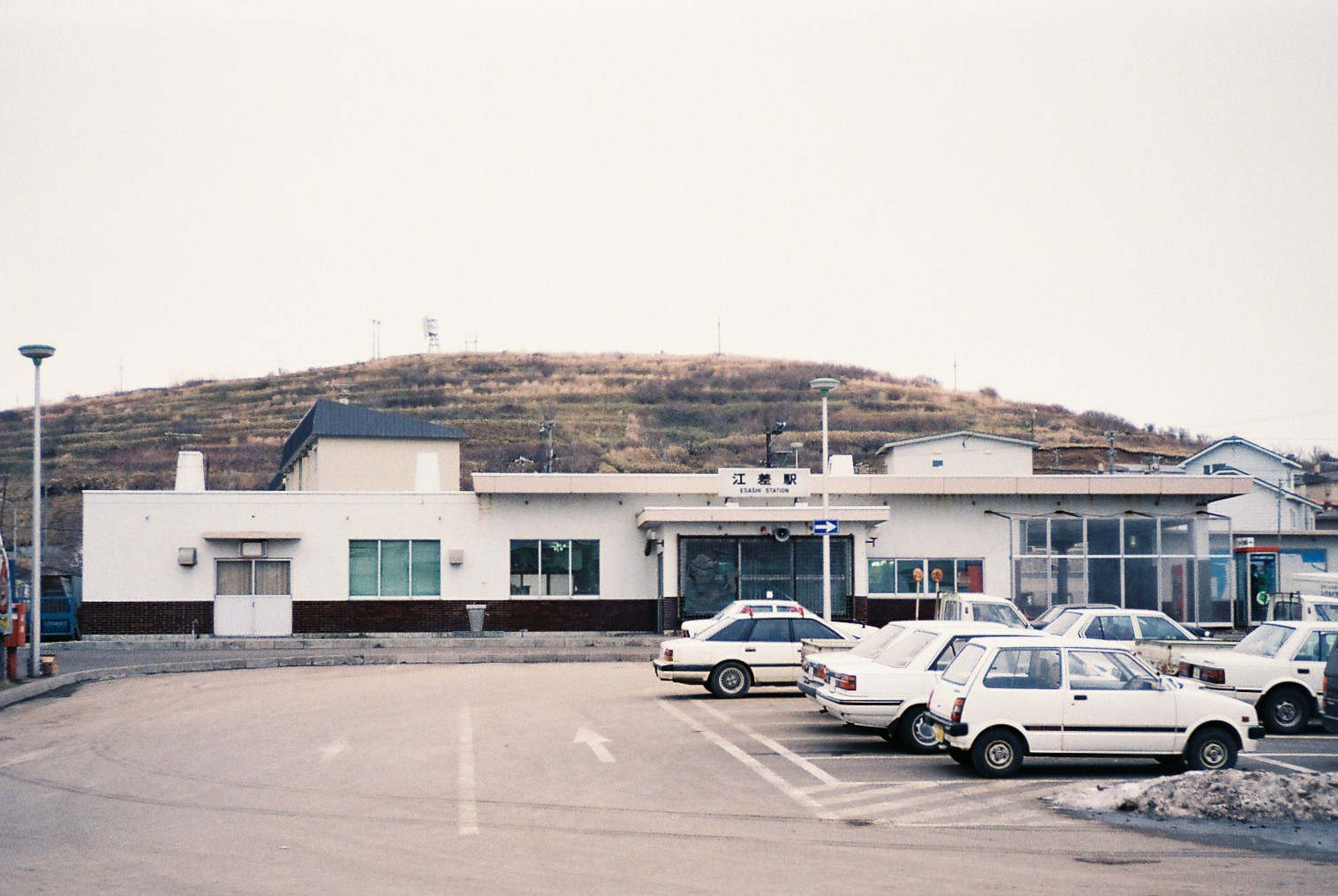 Esashi Station forecourt